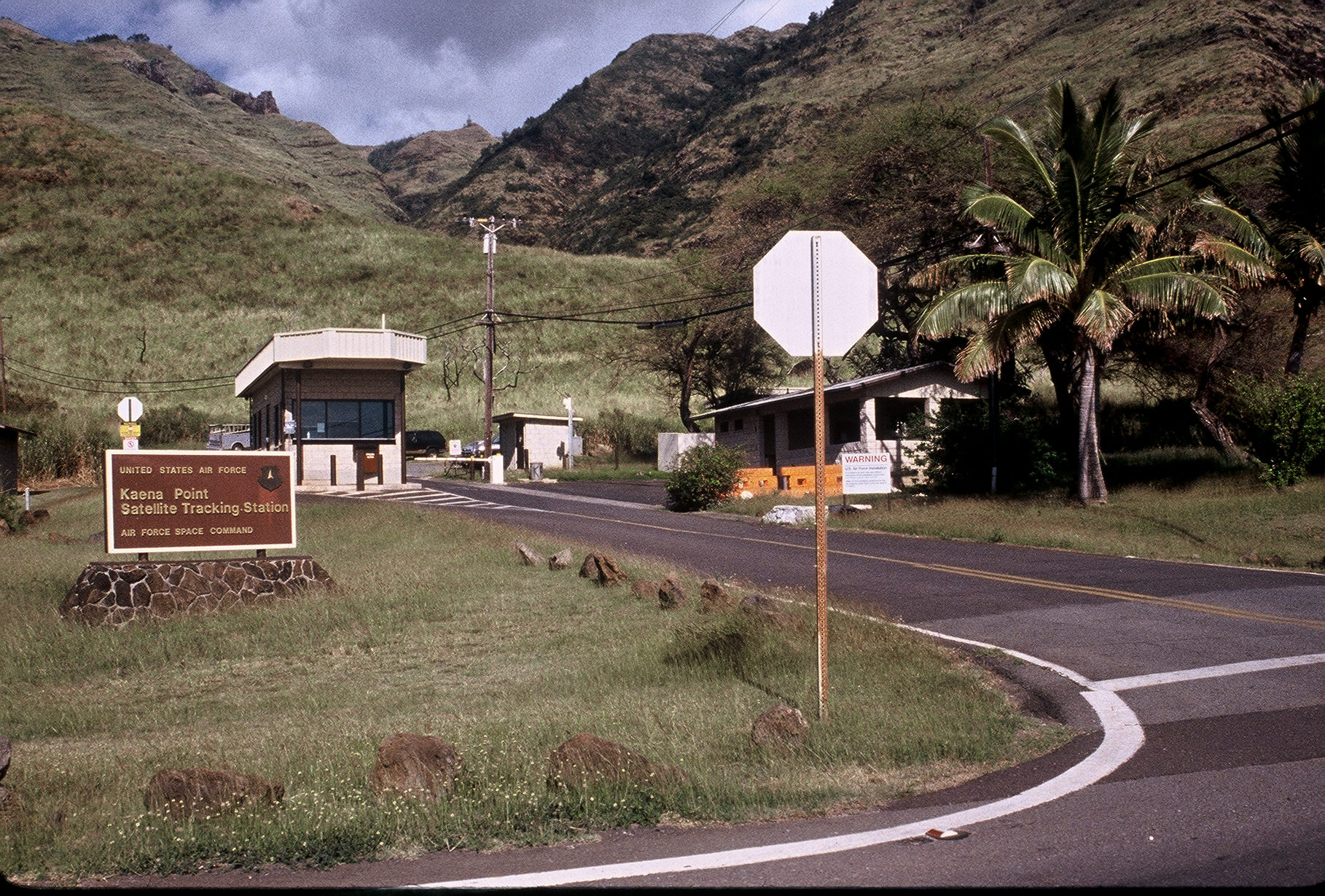 Entrance to the Kaena Point Satellite Tracking Facility.